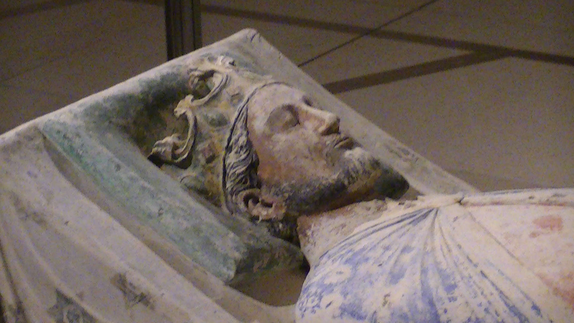 Effigy of Richard I of England in the church of Fontevraud Abbey